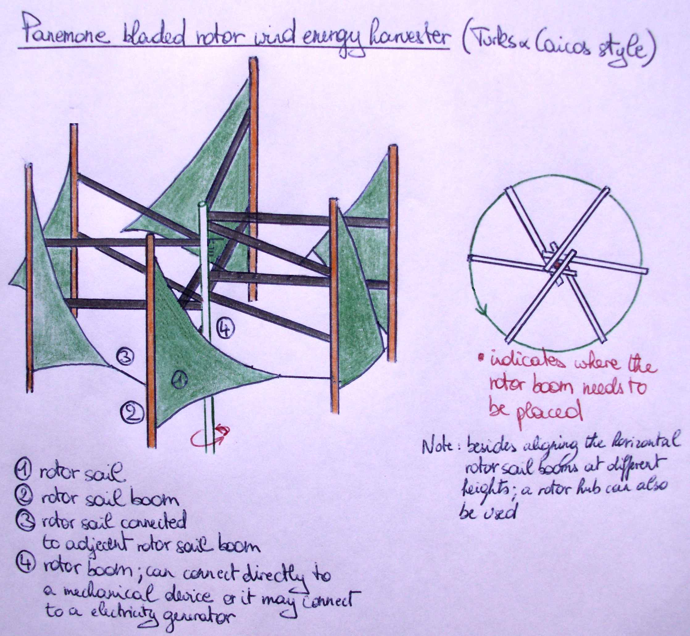 A schematic of a Panemone bladed rotor wind energy harvester as commonly built in the Turks & Caicos islands. The schematic was hand drawn based on an image at